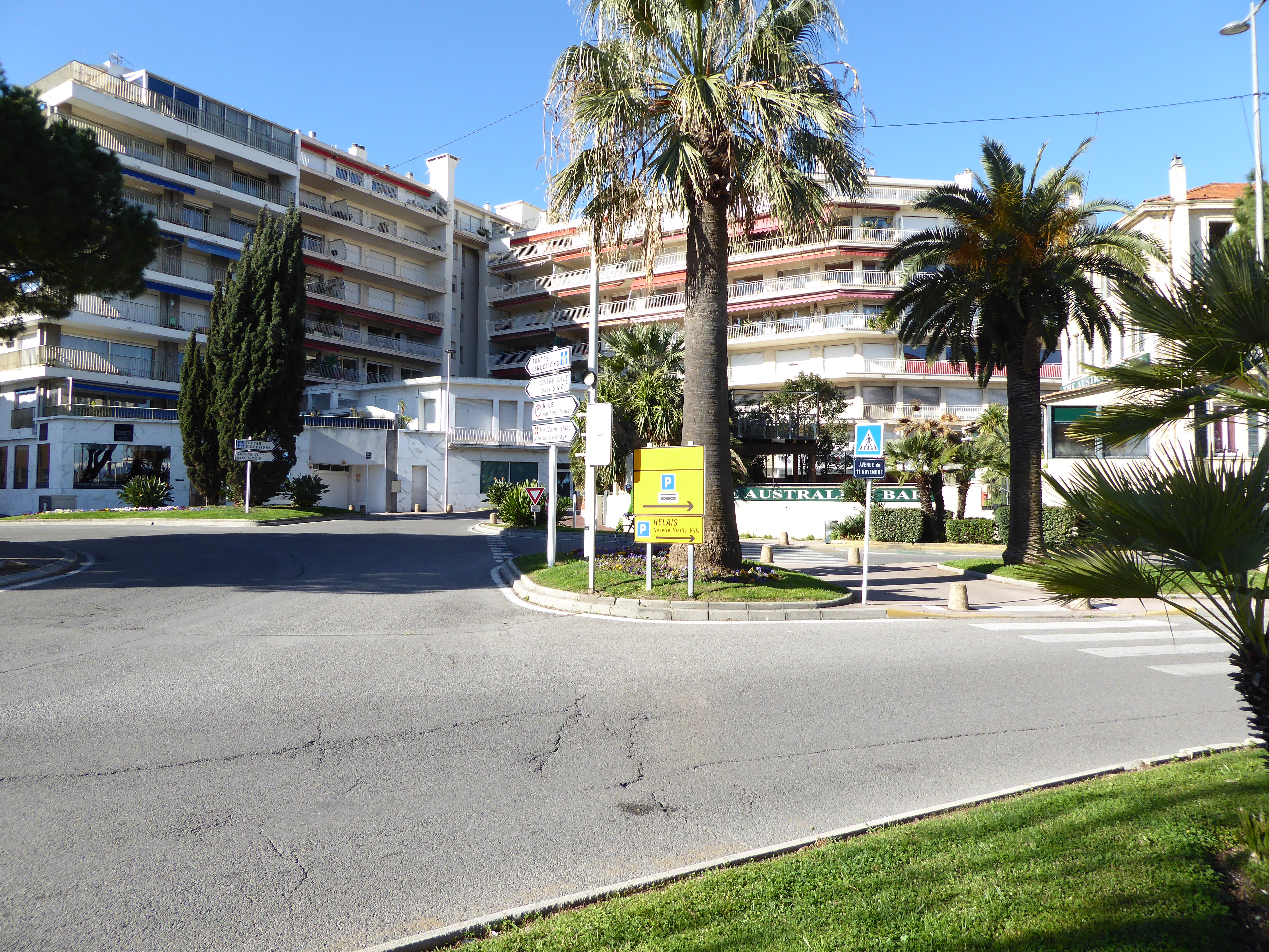 av de verdun antibes